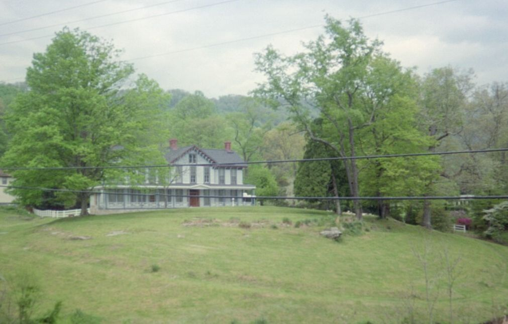 A view of the Page-Vawter House in Ansted, West Virginia from the Midland Trail during a group bus tour as part of Friends of the Virginian Railway gathering on May 3, 2008.